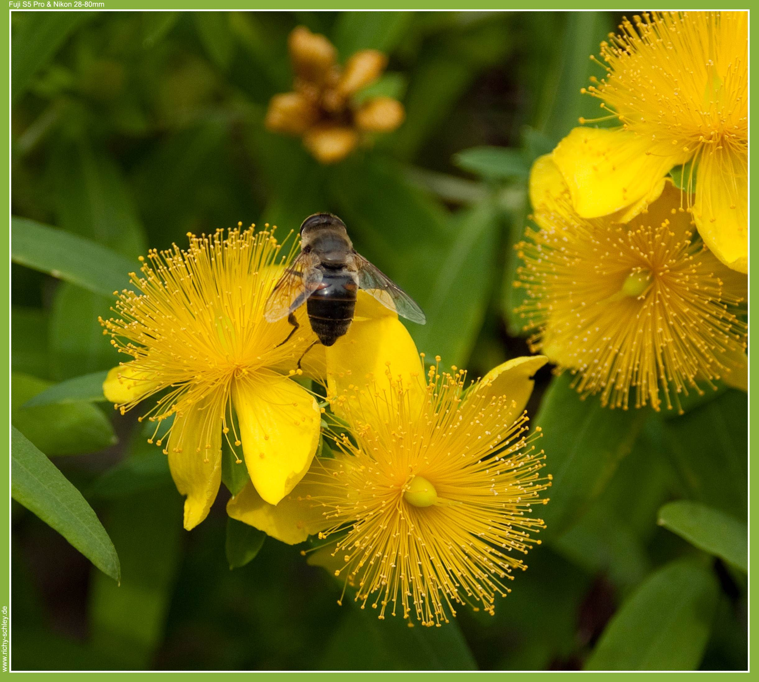 Rose of Sharon